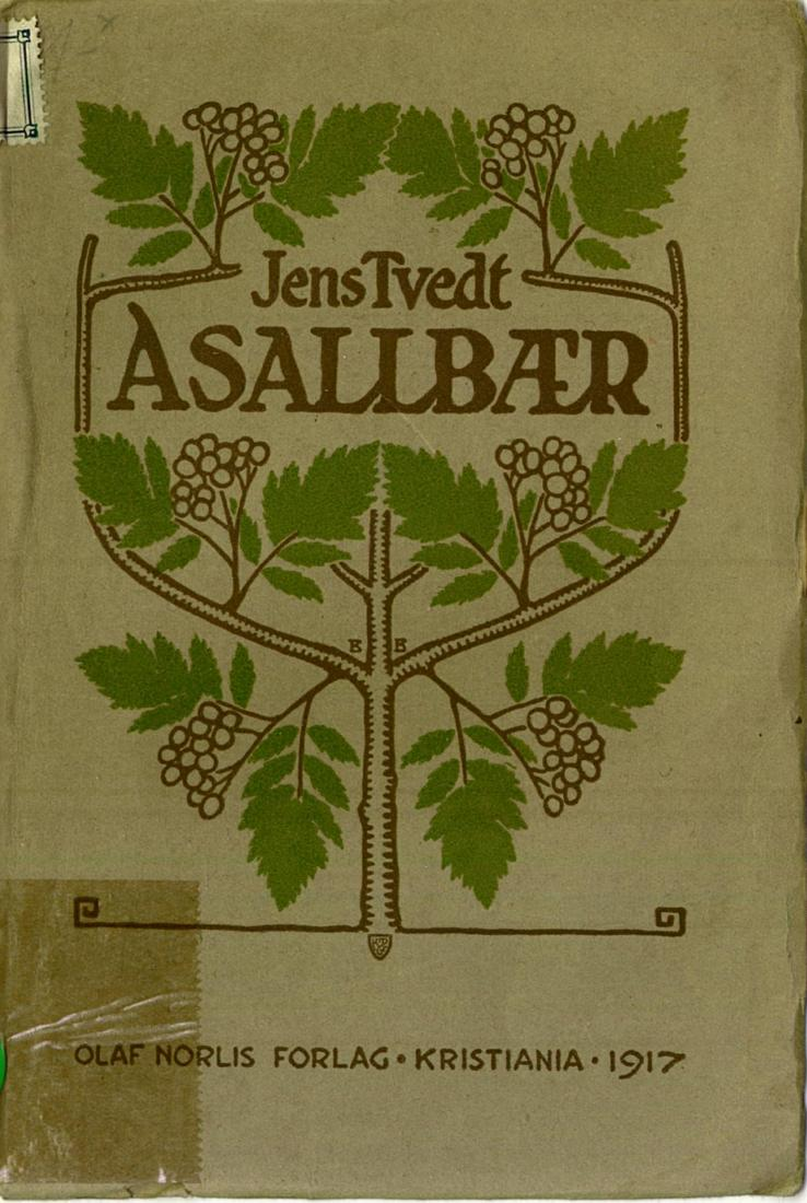 Cover of Jens Tvedt's Asallbær 1917